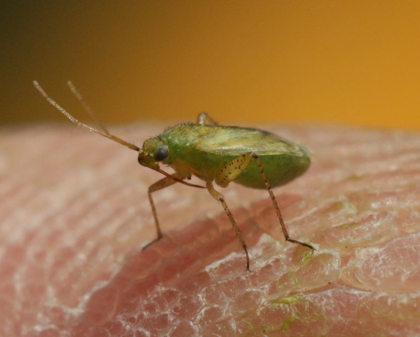 Musselburgh Invert survey